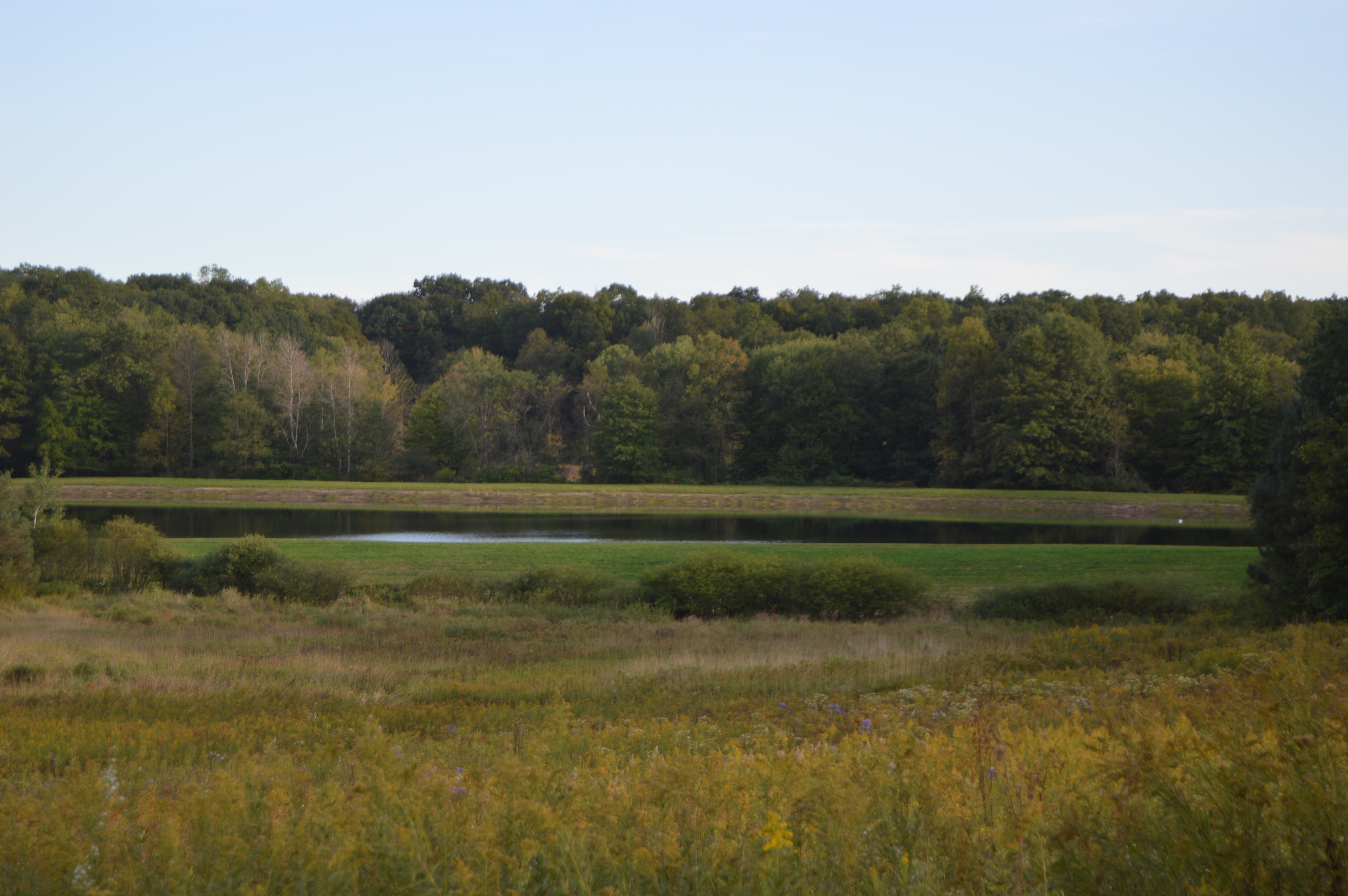 A pond on the southeastern corner of the intersection of Pennsylvania Route 173, north of Sandy Lake, in extreme northern Sandy Lake Township, Mercer County, Pennsylvania, United States.